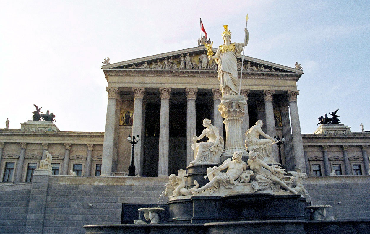 The Parliament Building in Vienna, Austria. In the foreground, the fountain with the statue of Pallas Athena.